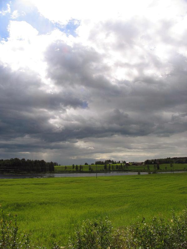 Landscape in Valtimo, Finland